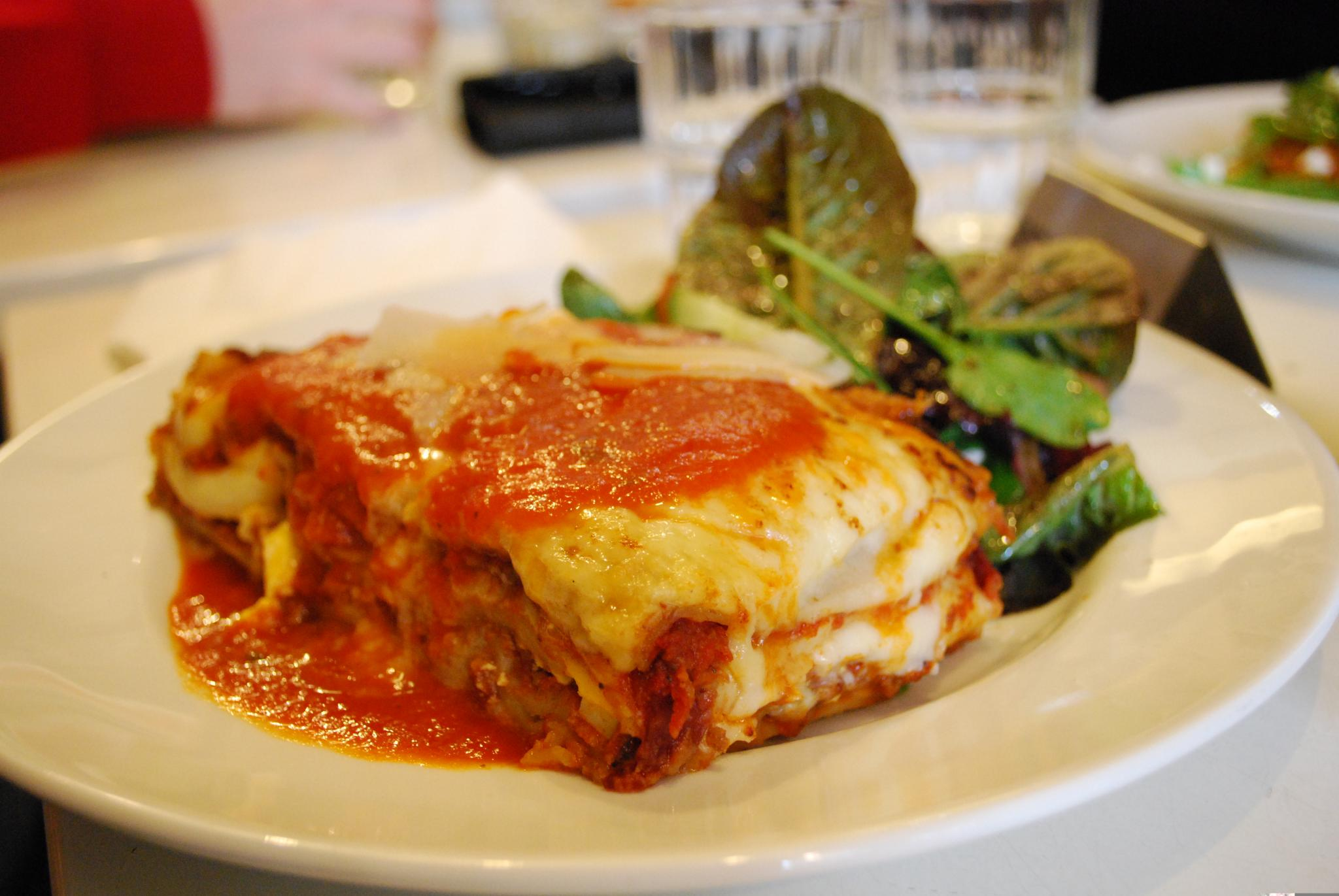 Tony's Sicilian-style lasagna had slices of boiled egg and minced beef between sheets of pasta. Very interesting! My colleagues and I used to come here for hearty lunches. I'm glad to say, that it is still very good! I think we'll be back for more :) Stax